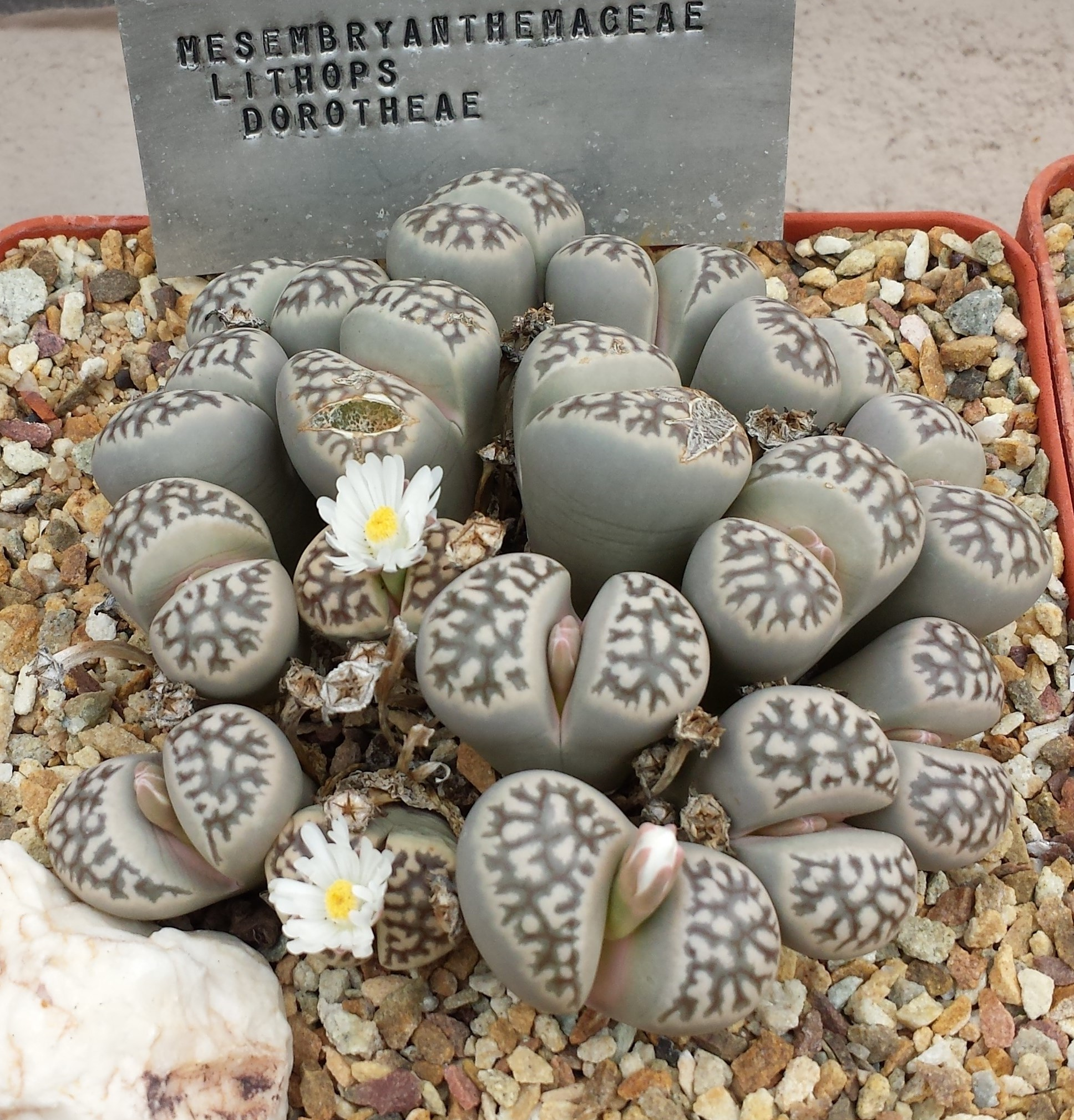 Lithops dorotheae